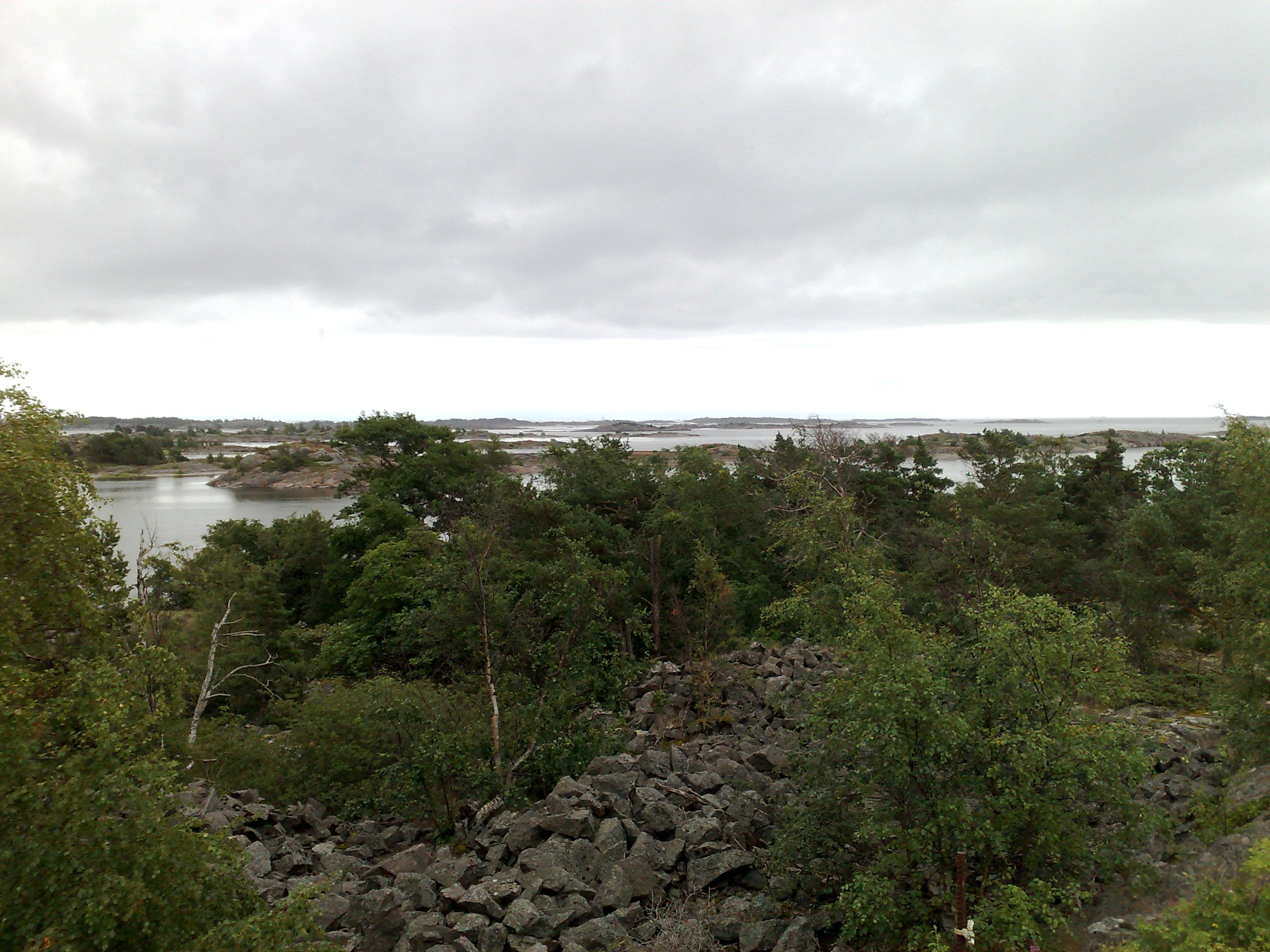 View from Örö